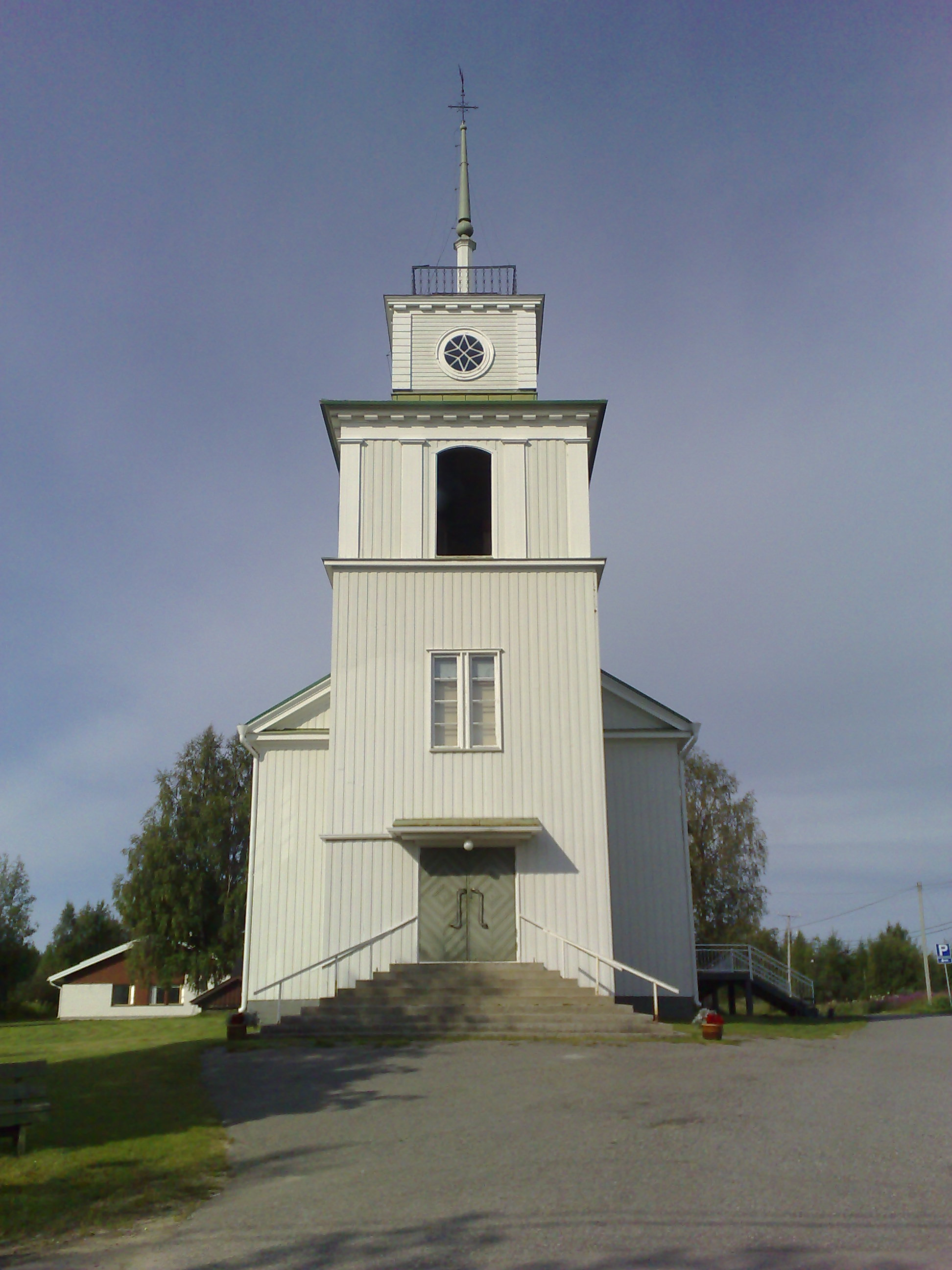 Church of Pelkosenniemi, Finland